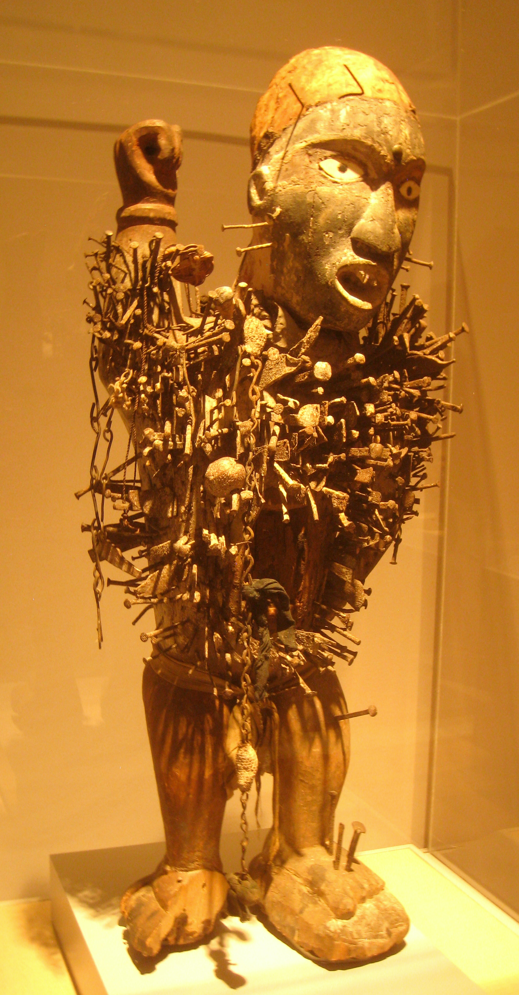 Nkisi Nkondo, Congo, c. 1880-1920. In the Carnegie Museum of Art, Pittsburgh, Pennsylvania, USA.